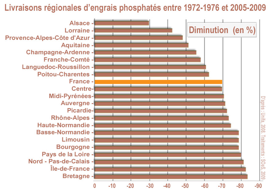 Decrease forFrench region of sales of phosphates. Source : SOeS (Statistical Service of the Ministry in charge of ecology), according to data provided by Unifa in 2008